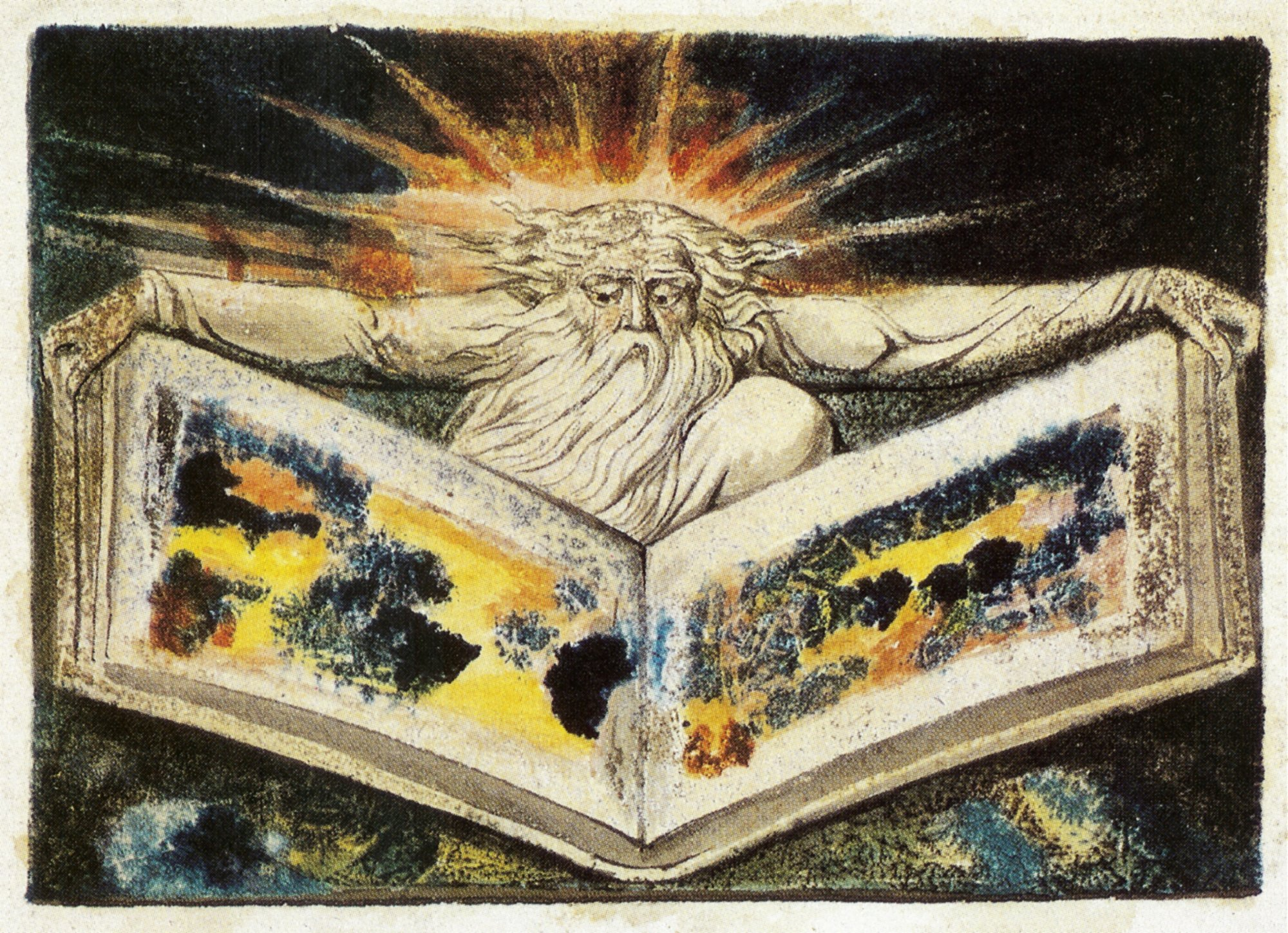 William Blake: The Book of my Remembrance from the Small Book of Designs, Copy B c. 1796, relief etching, colour printed, with pen and watercolour